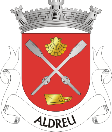 Crest of Aldreu, a parish in the municipality of Barcelos (Portugal)